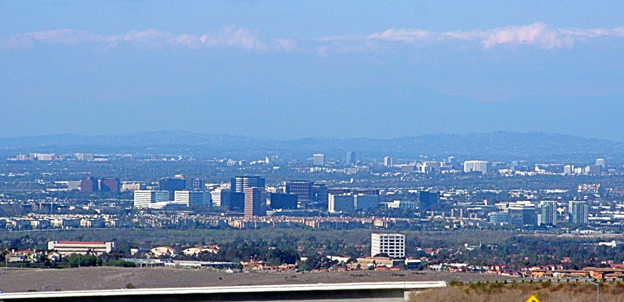 Irvine, California